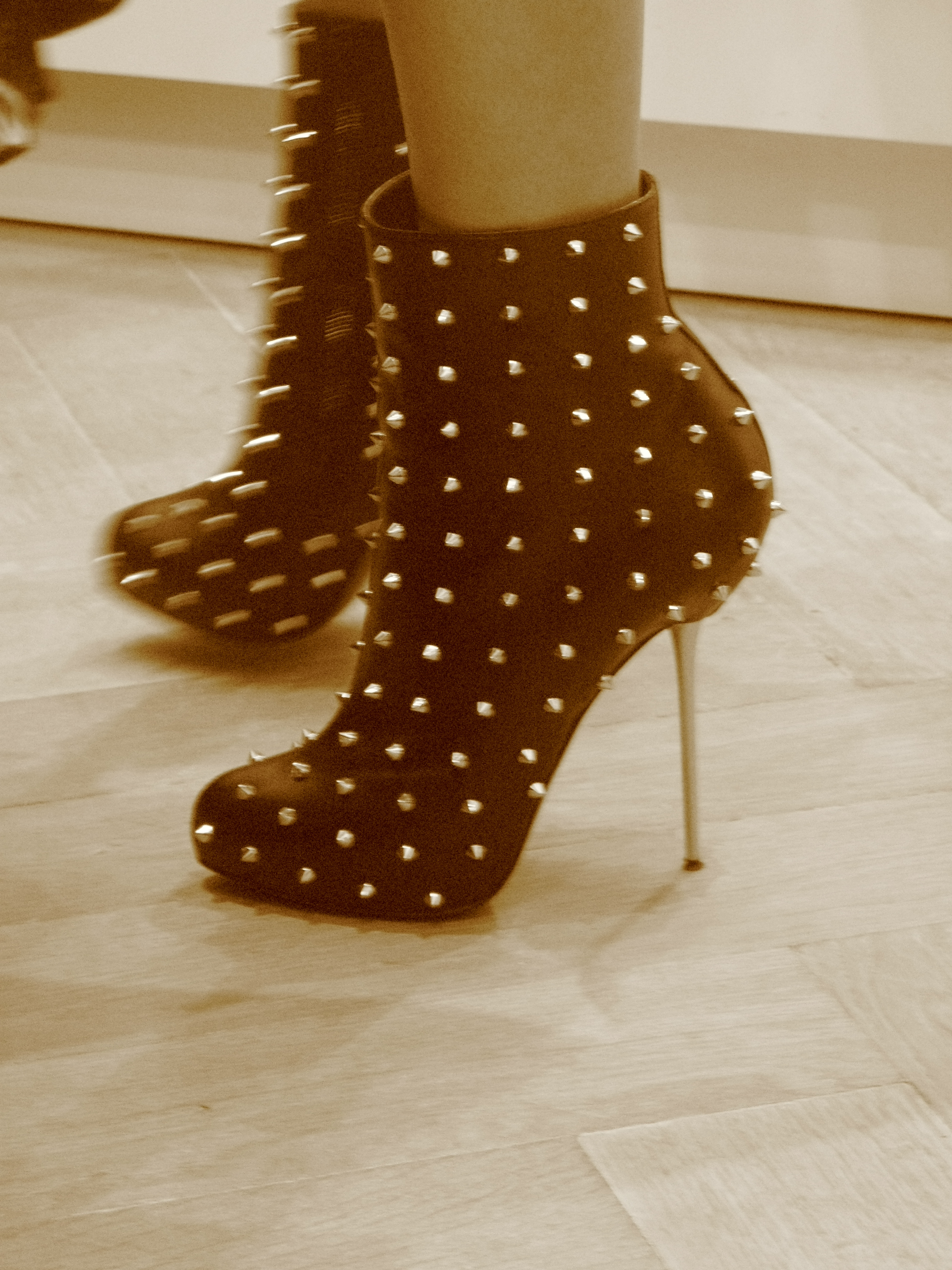 Nicky Hilton in Studded Christian Louboutin.